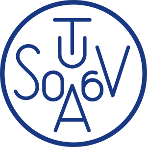 Historical logo of TuS Altrip 06, German football club.